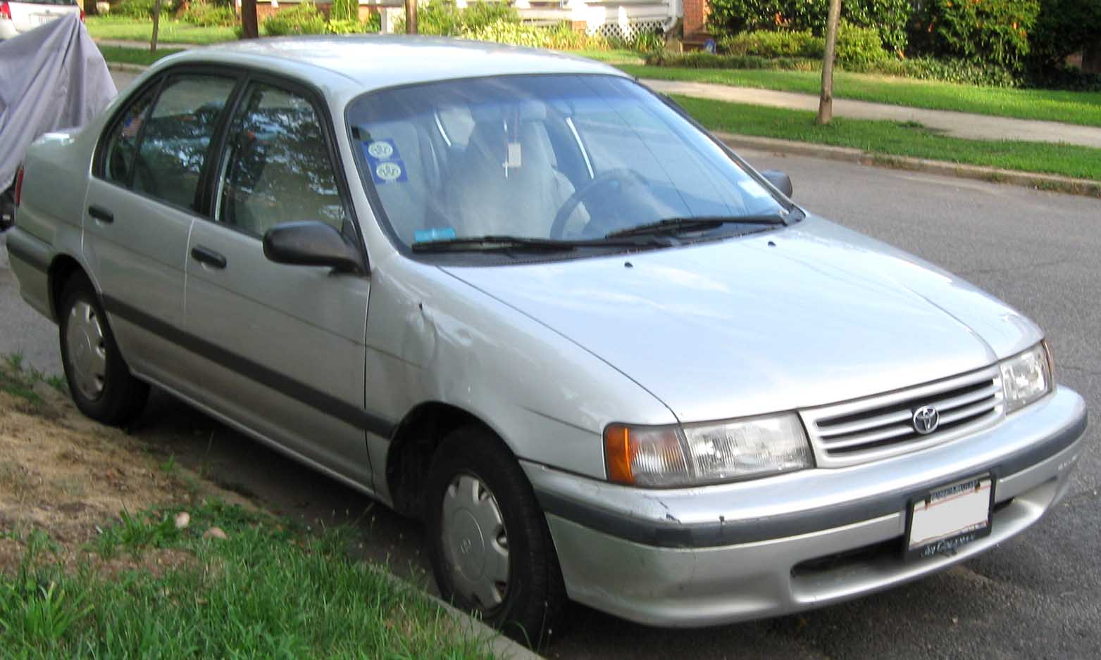 1991-1992 Toyota Tercel photographed in Washington, D.C., USA.